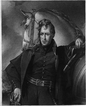 Major General Andrew Jackson, by James B. Longacre. Pre-1923 publication/copyright proved here